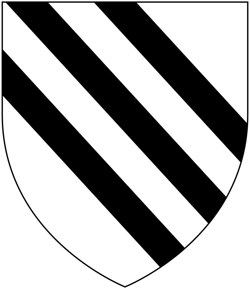 Arms of de Haccombe of Haccombe in Devon: Argent, three bends sable (Pole, Sir William (d.1635), Collections Towards a Description of the County of Devon, Sir John-William de la Pole (ed.), London, 1791, p.485). As seen in Haccombe Church, and on mural monument in Exeter Cathedral to Sir Peter Carew (d.1575); later quartered by the Carew baronets of Haccombe.